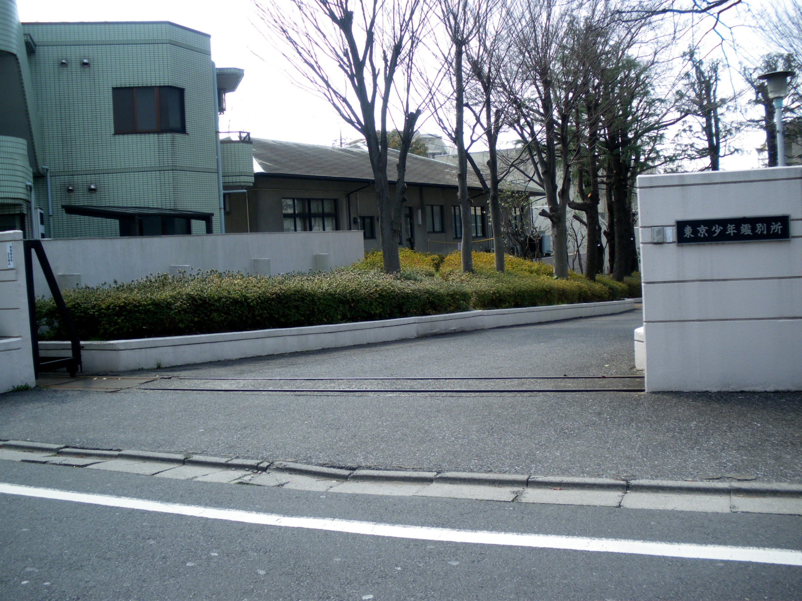 Tokyo Juvenile Classification Home in Hikawadai, Nerima Ward, Tokyo, Japan